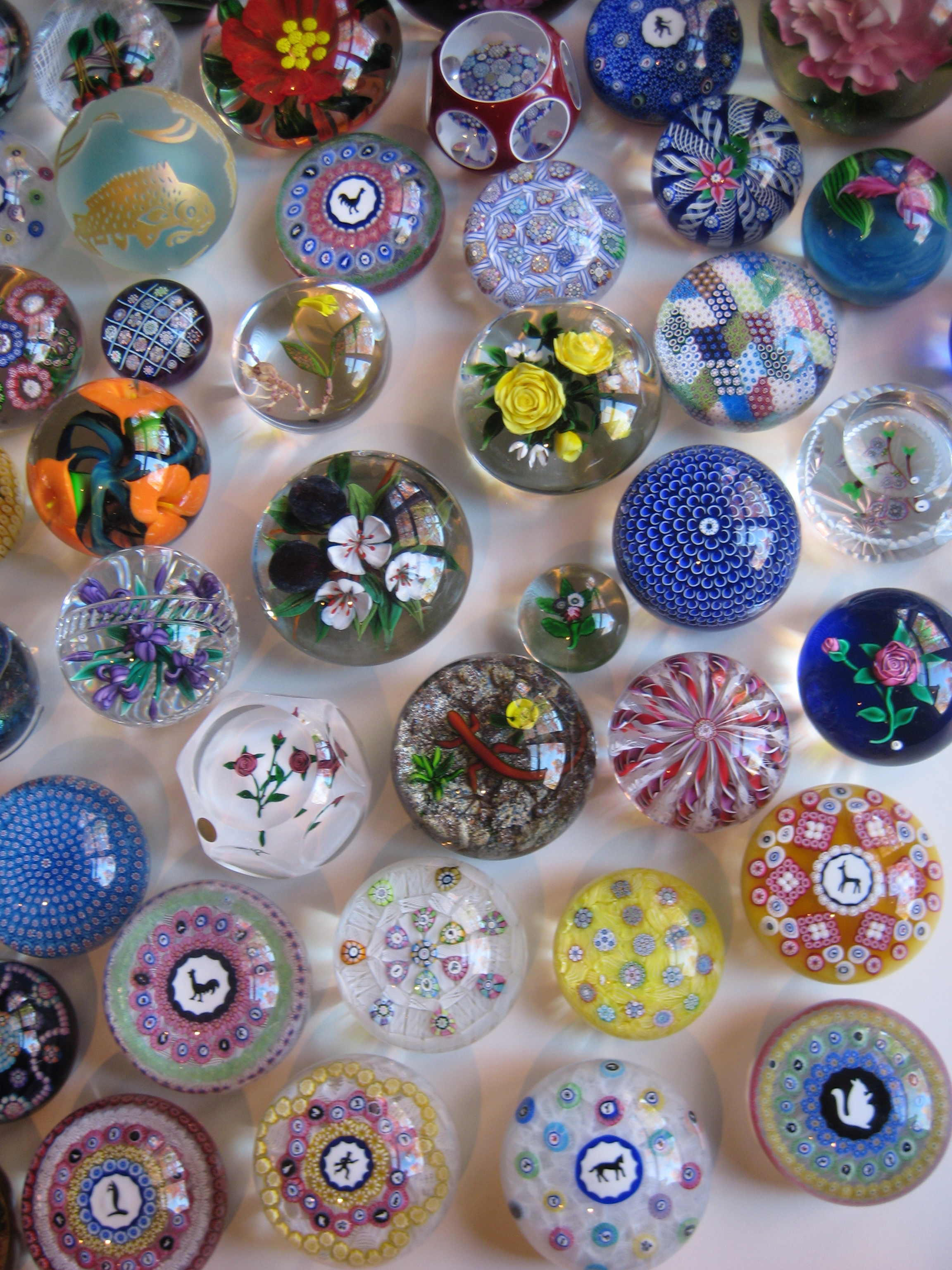 A picture of part of my paperweight collection